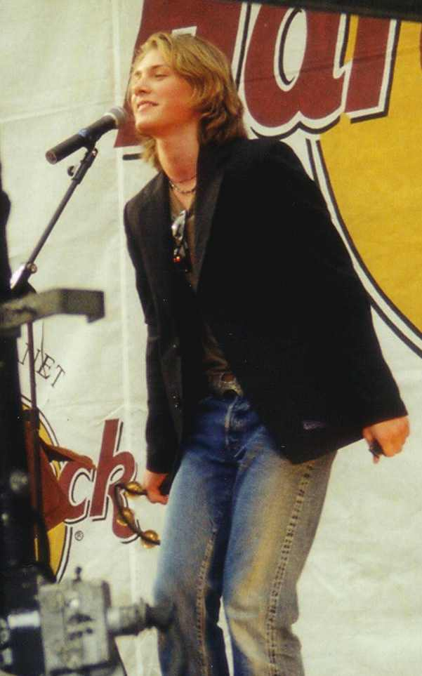 Scan of a picture of Taylor Hanson taken by me during a Show at Hard Rock Café in Madrid on 05/22/00